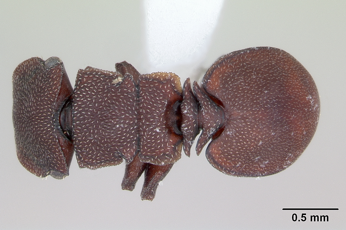 Dorsal view of ant Cephalotes pallidoides specimen casent0173695.